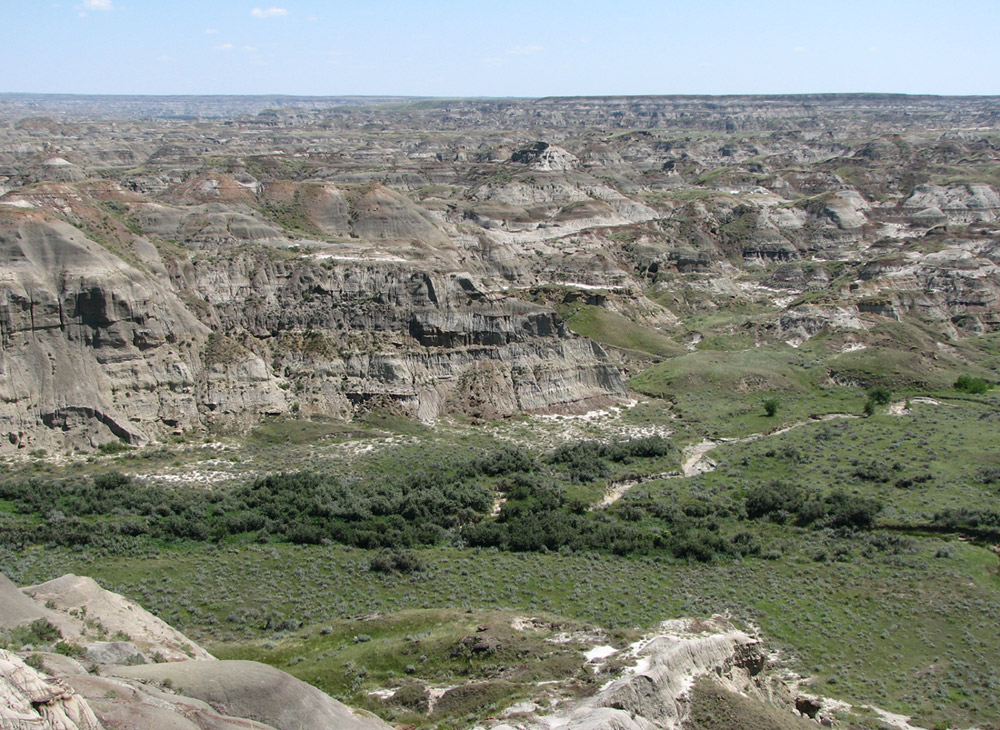 July 2007 in Dinosaur Provincial Park